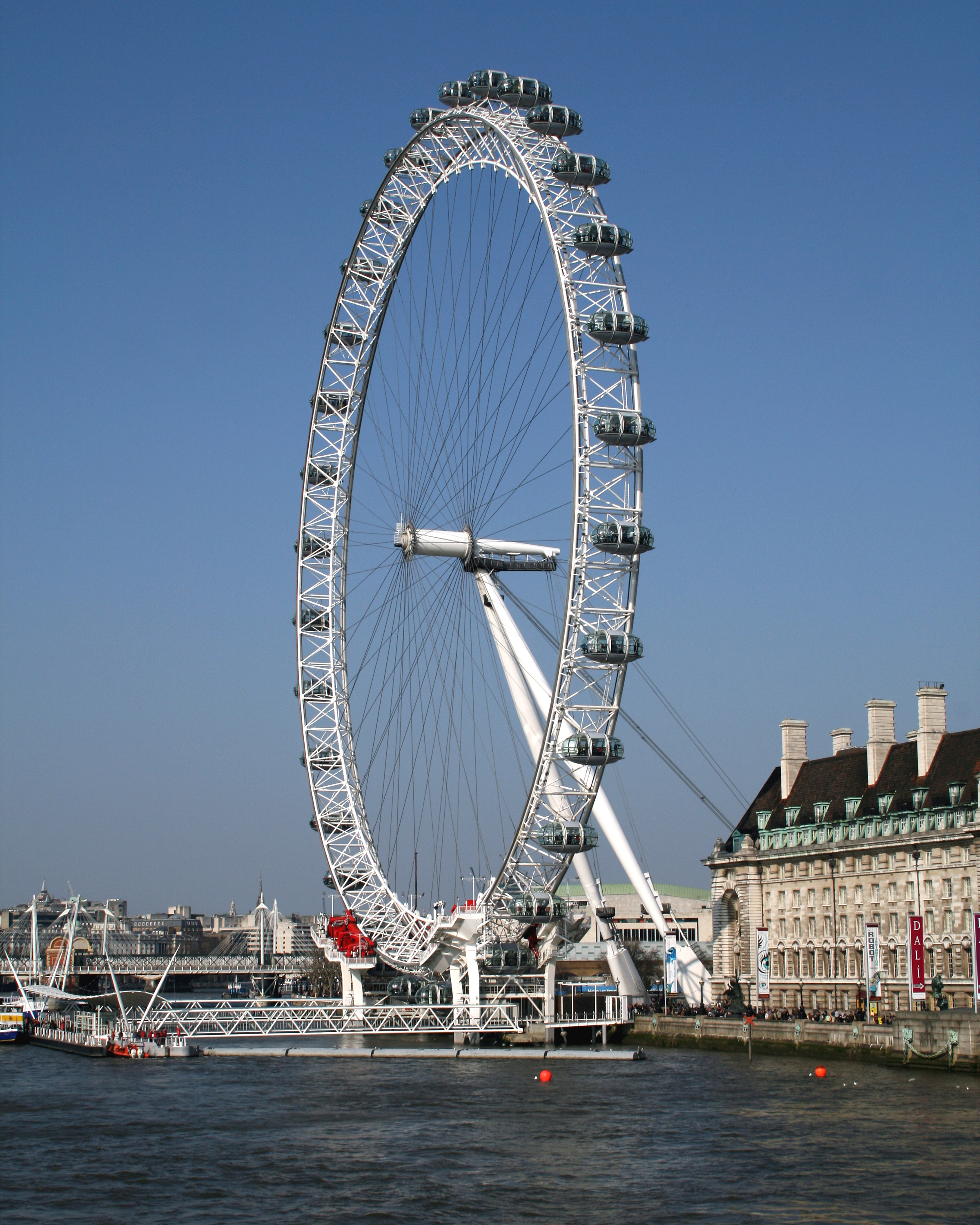 The London Eye.